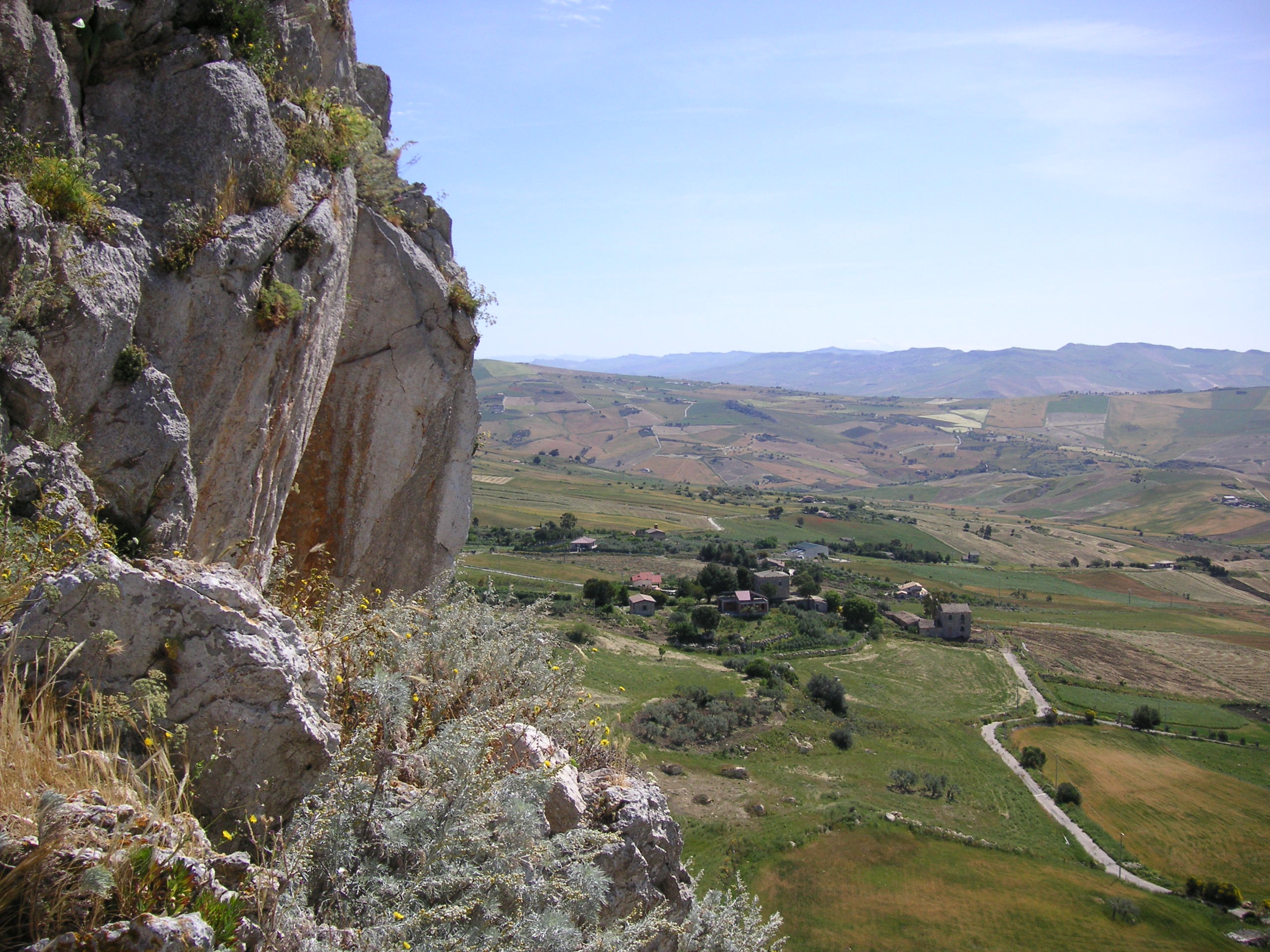 Sicily, landscape near Mussomeli.